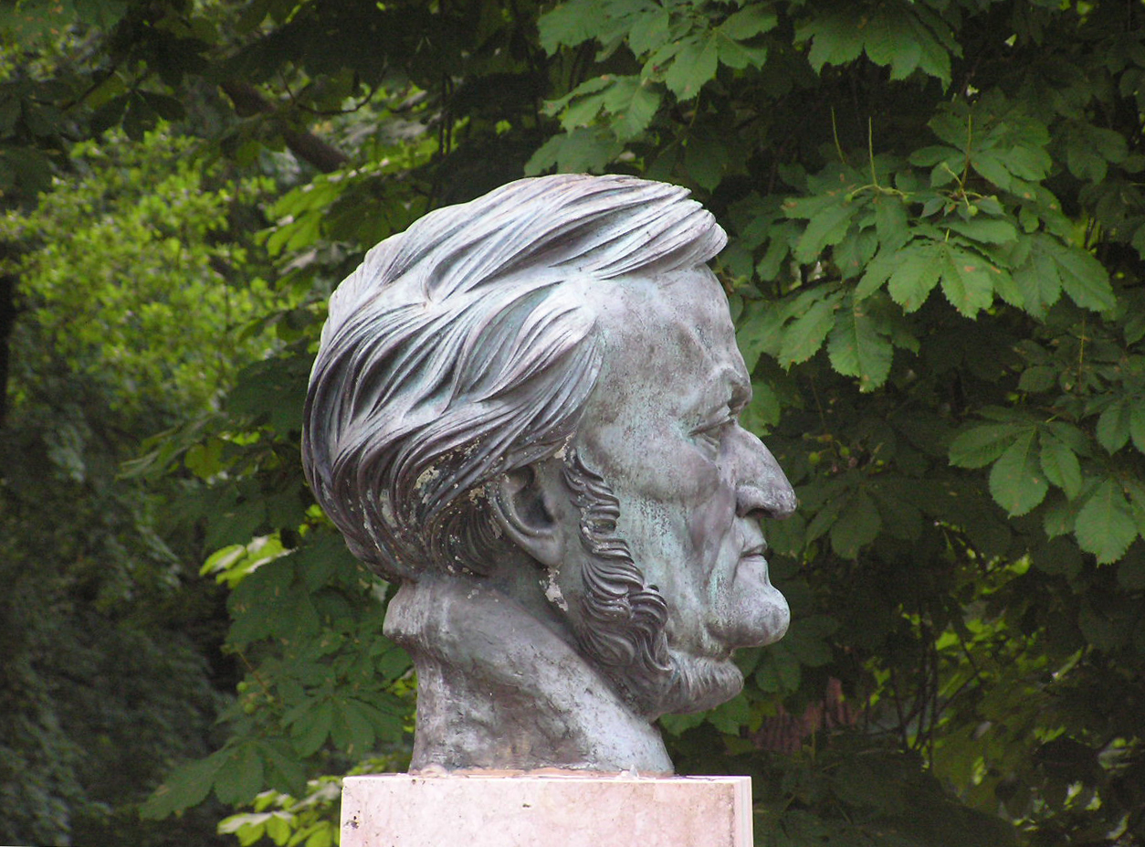 Richard Wagner's Bust in "Festspielpark Bayreuth", sculpted by Arno Breker